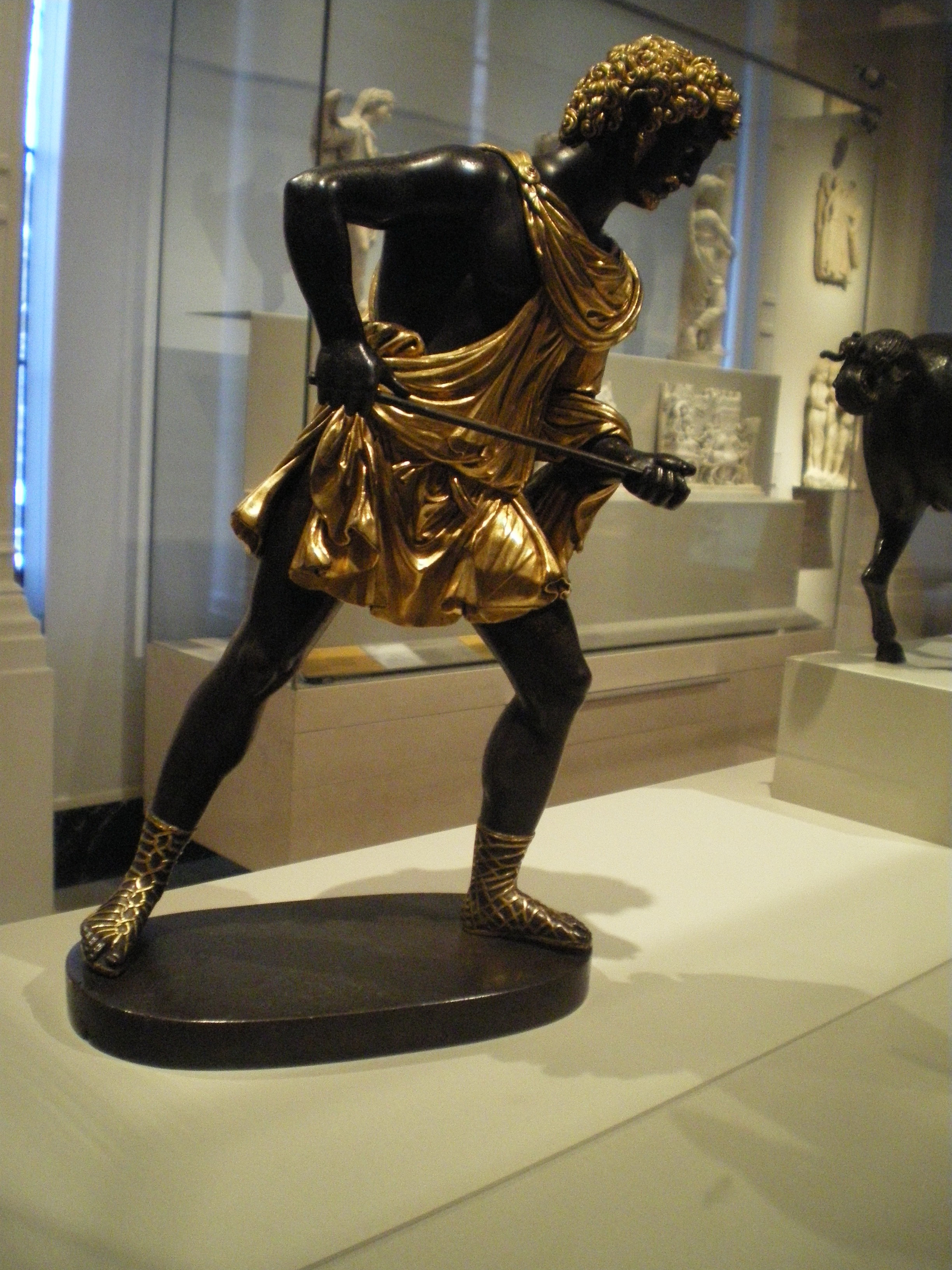 Meleager About 1484-95 Pier Jacopo Alari-Bonacolsi, called Antico (about 1460-1528) Italy, Mantua Partially gilded bronze with eyes inlaid in silver The statuette represents the mythical character Meleager, the heir to the throne of Calydon, a city in Greece. His father had offended the goddess Artemis, who sent a great boar to attack his homeland. Here Meleager is poised to kill the boar. The design is based on a classical marble statue. At one time this marble was in the Belvedere in Rome, but we know that it was in the Uffizi in Florence by 1638. There it was popularly known as the Contadino or Villano (peasant). A fire in 1762 destroyed it. Purchased with funds from the Horn and Bryan Bequests and with the assistance of The Art Fund Collection ID: A.27-1960 This photo was taken as part of Britain Loves Wikipedia in February 2010 by art_traveller.